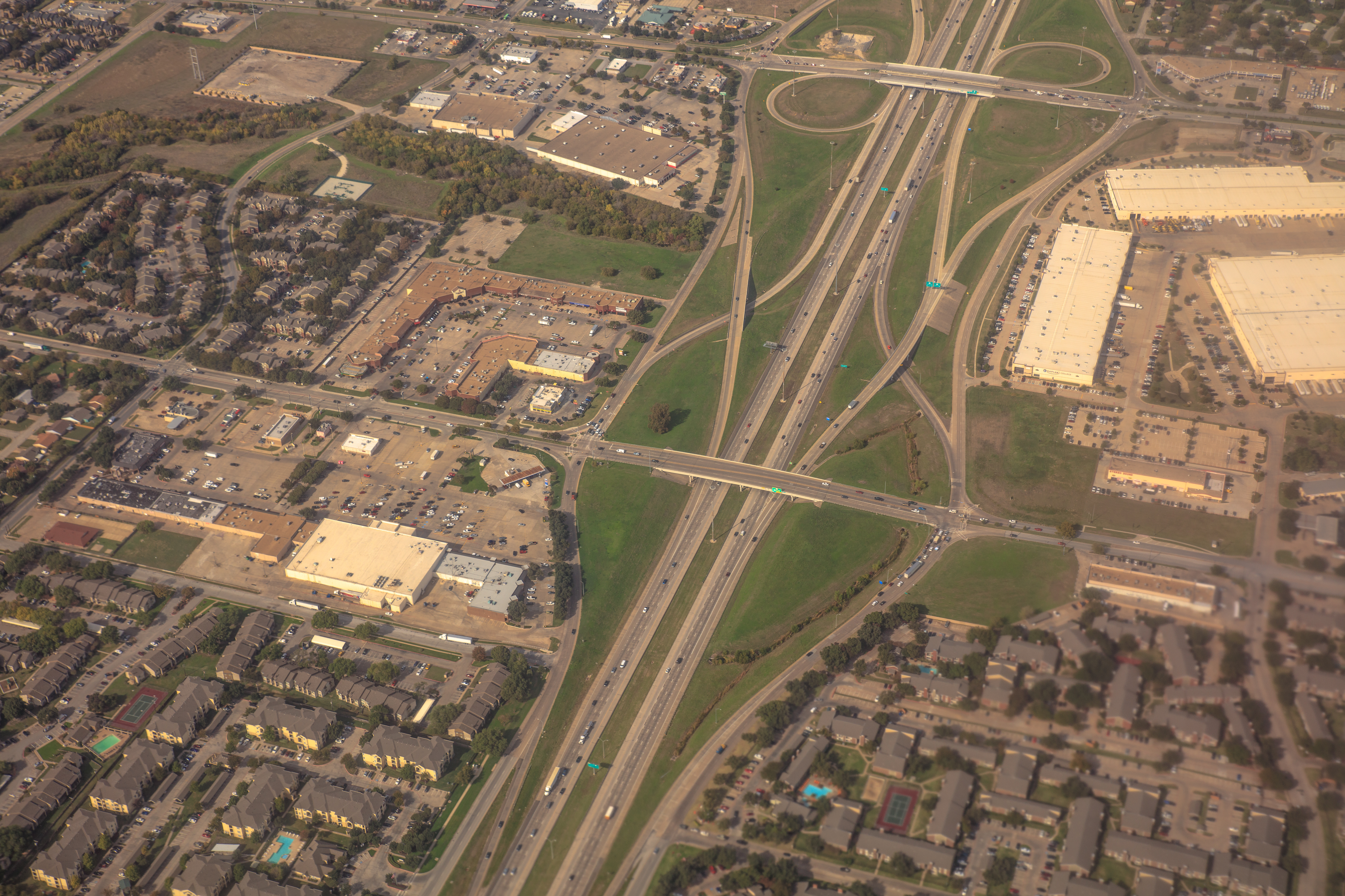 YVR to MIA flight...Dallas-Fort Worth environs...